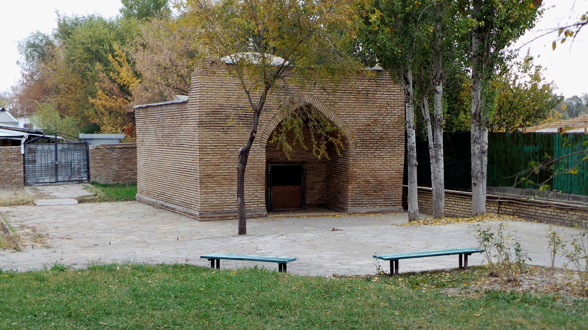 Dauytbek Mausoleum